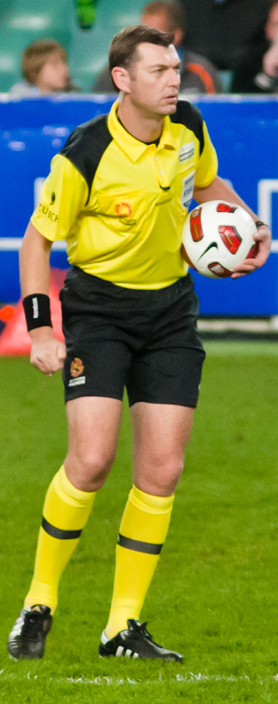 Matthew Breeze refereeing Round 1 of the 2010-11 A-League between Sydney FC and Melbourne Victory FC.